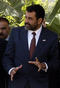 T.V. Mohandas Pai, former HR head of Infosys.